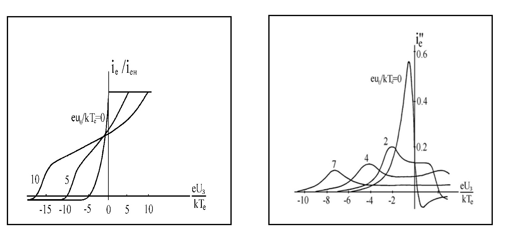 RF Probe under influence